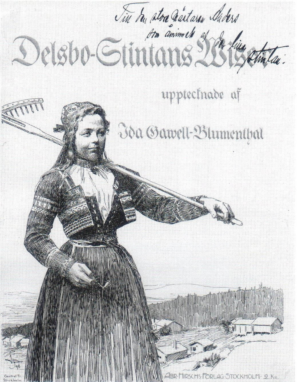 Cover of a collection of songs by "Delsbo-Stintan", eg. Ida Gawell-Blumenthal. Published in 1898. The writing on the top is a dedication to Anders Zorn, "Till den store mästaren Anders som åminnelse af den lilla stintan".